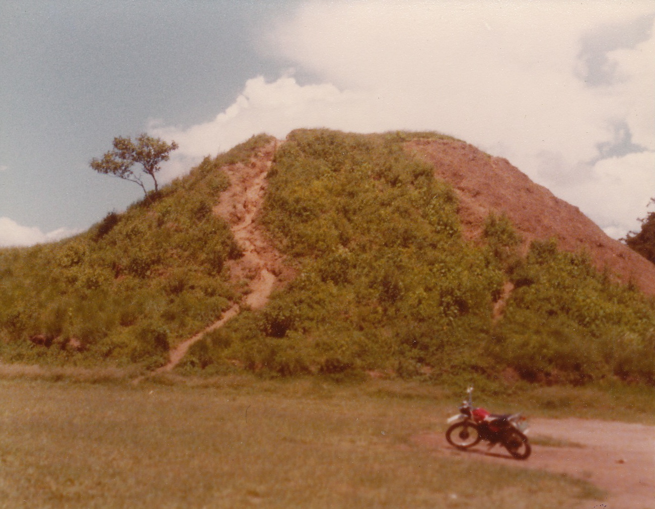 Kaminaljuyu. Ancient Maya ruins, within what became suburban area of Guatemala City. 1979.